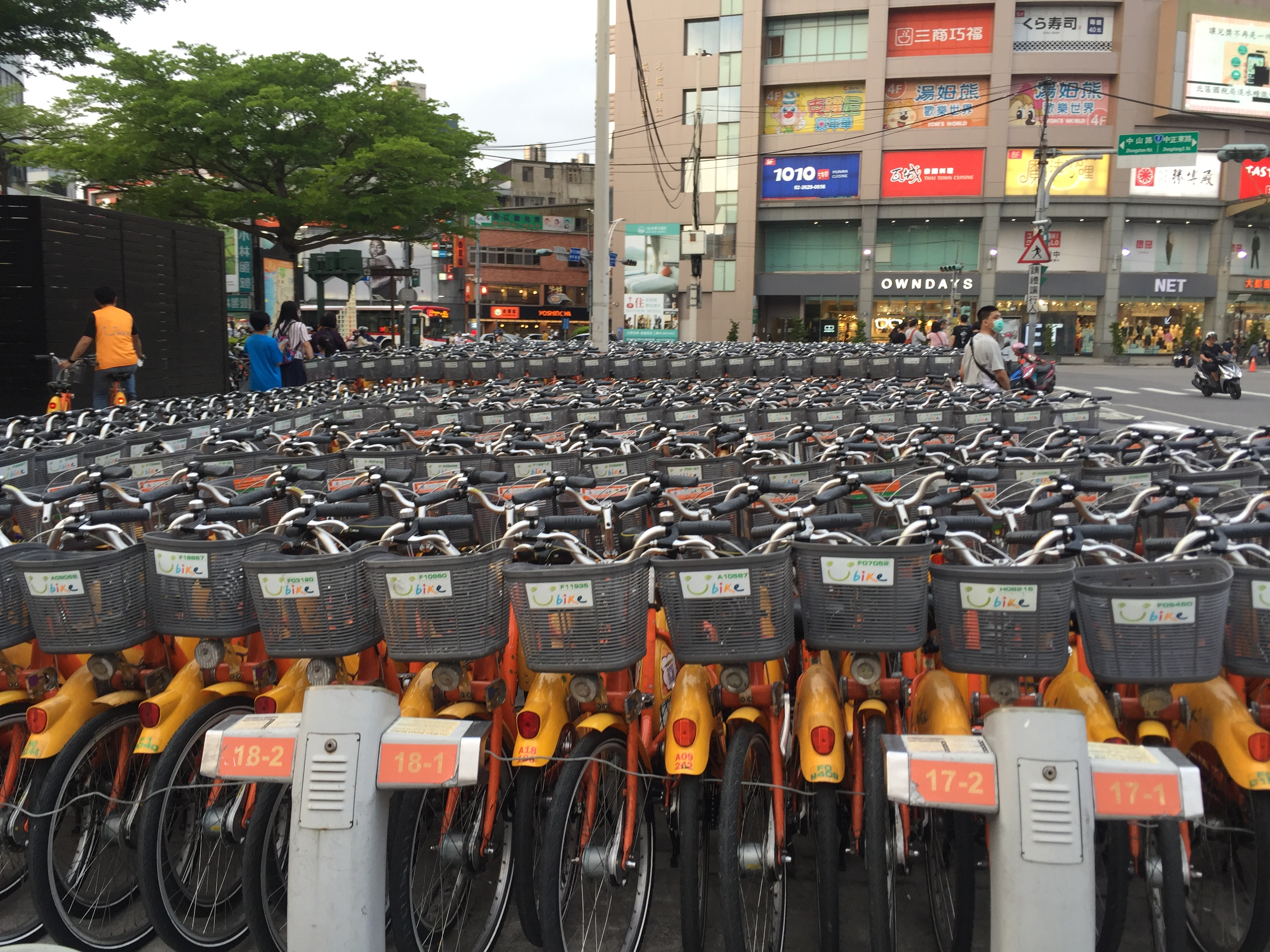 Ubike in Tamsui